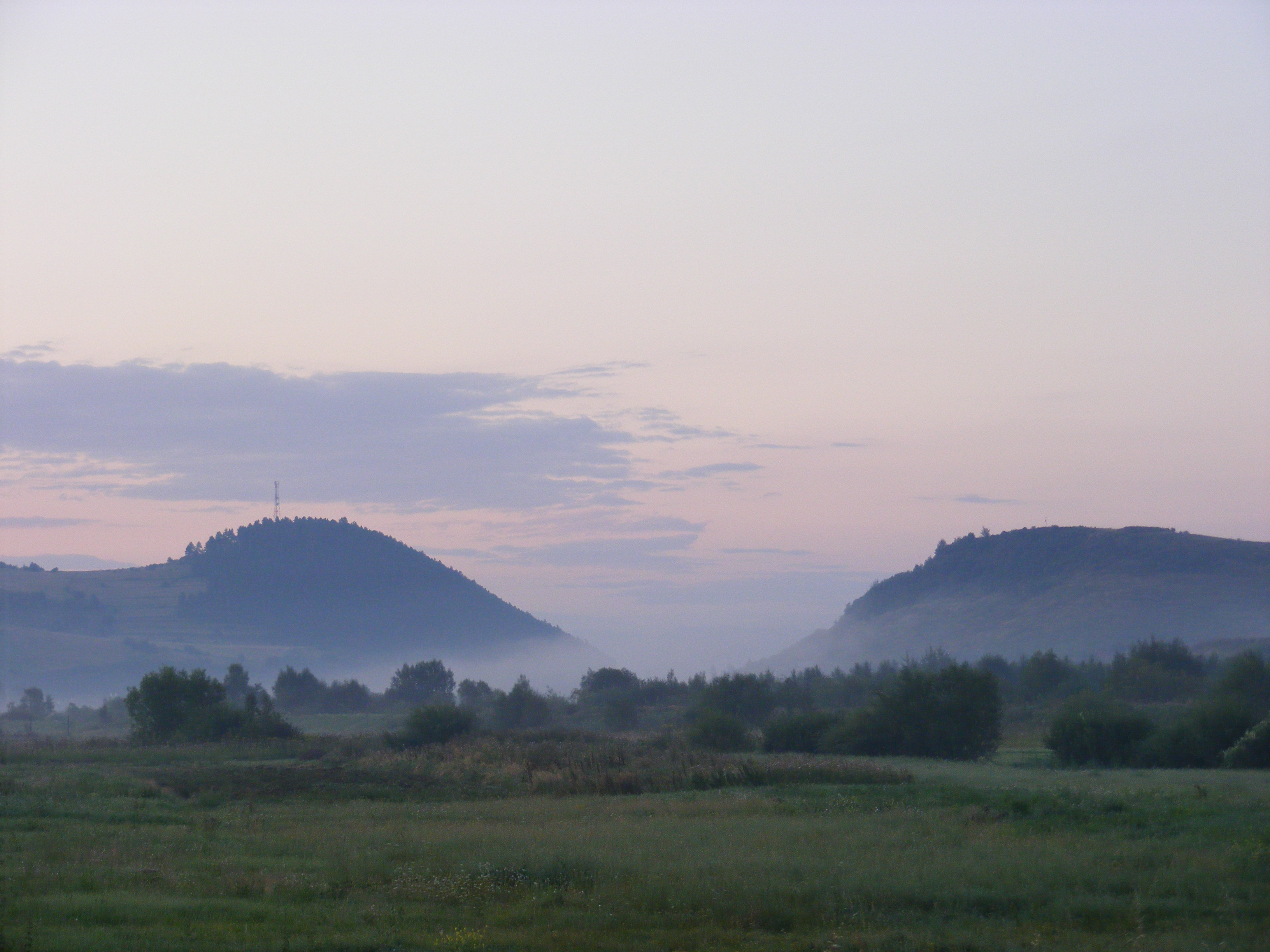 The Zsögöd-strait, in Romania, Harghita County.